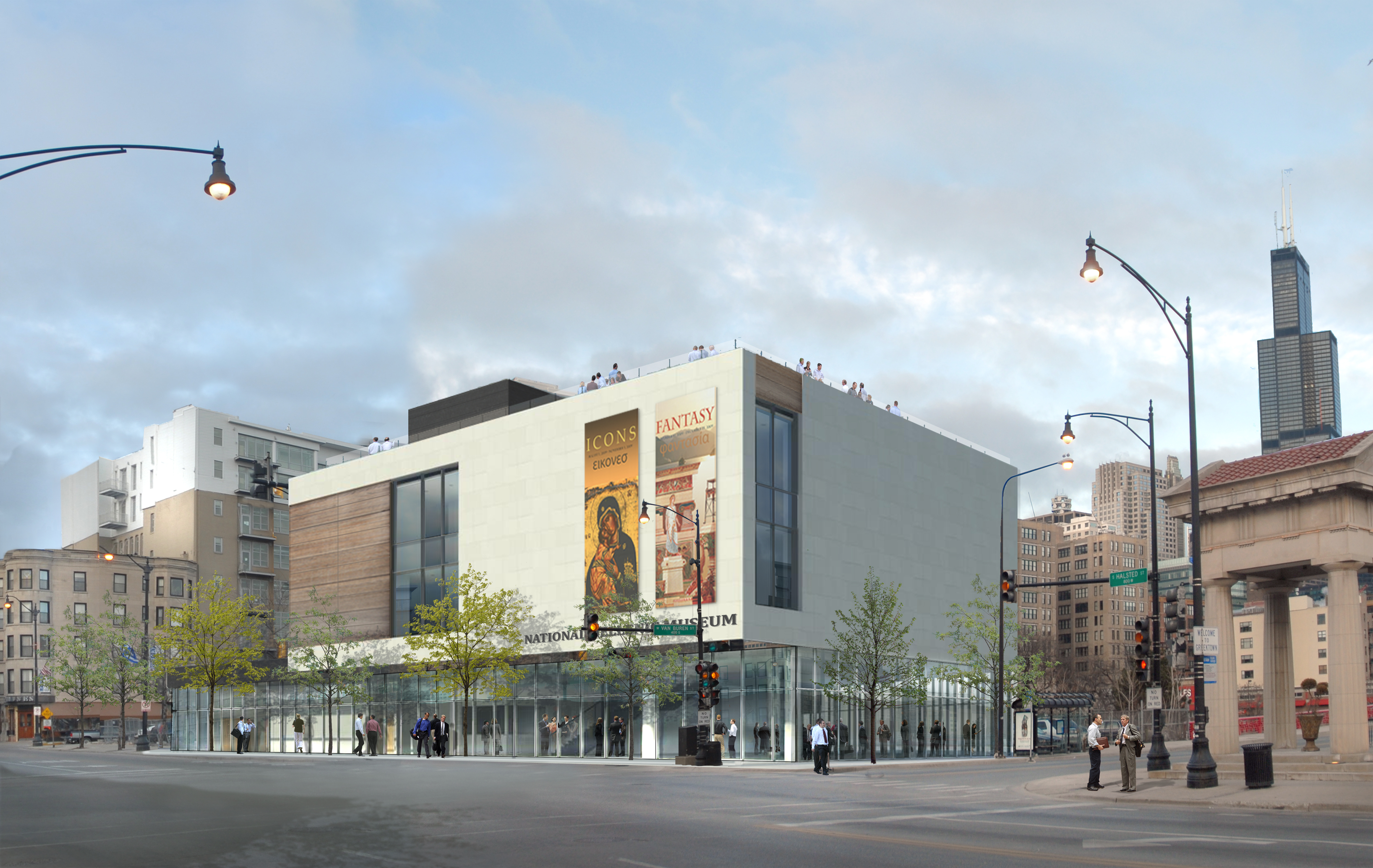 A rendering of the new National Hellenic Museum in Chicago's Greektown, opened in December 2011.